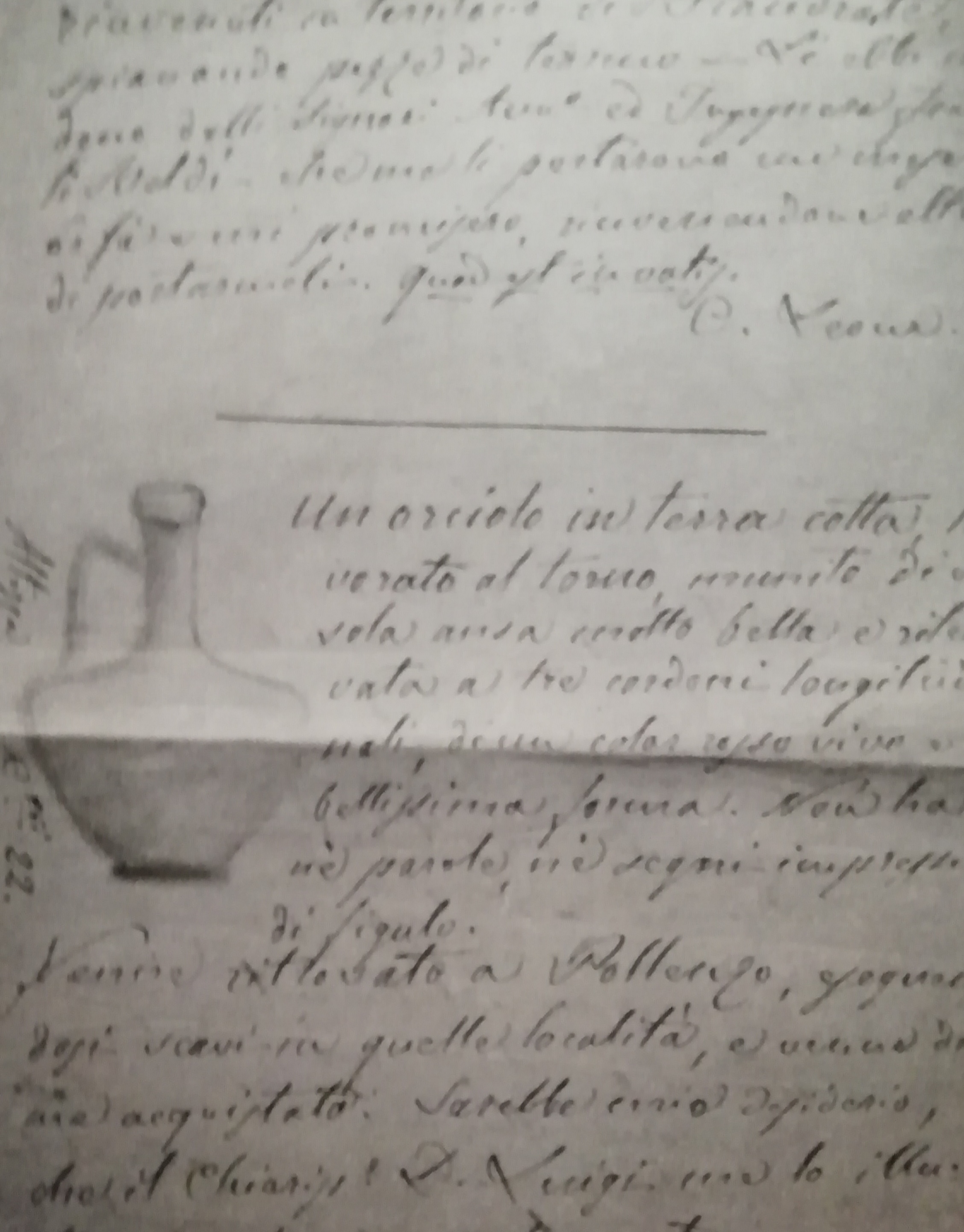 Museum of Vercelli Camillo Leone Luigi Bruzza archaeology